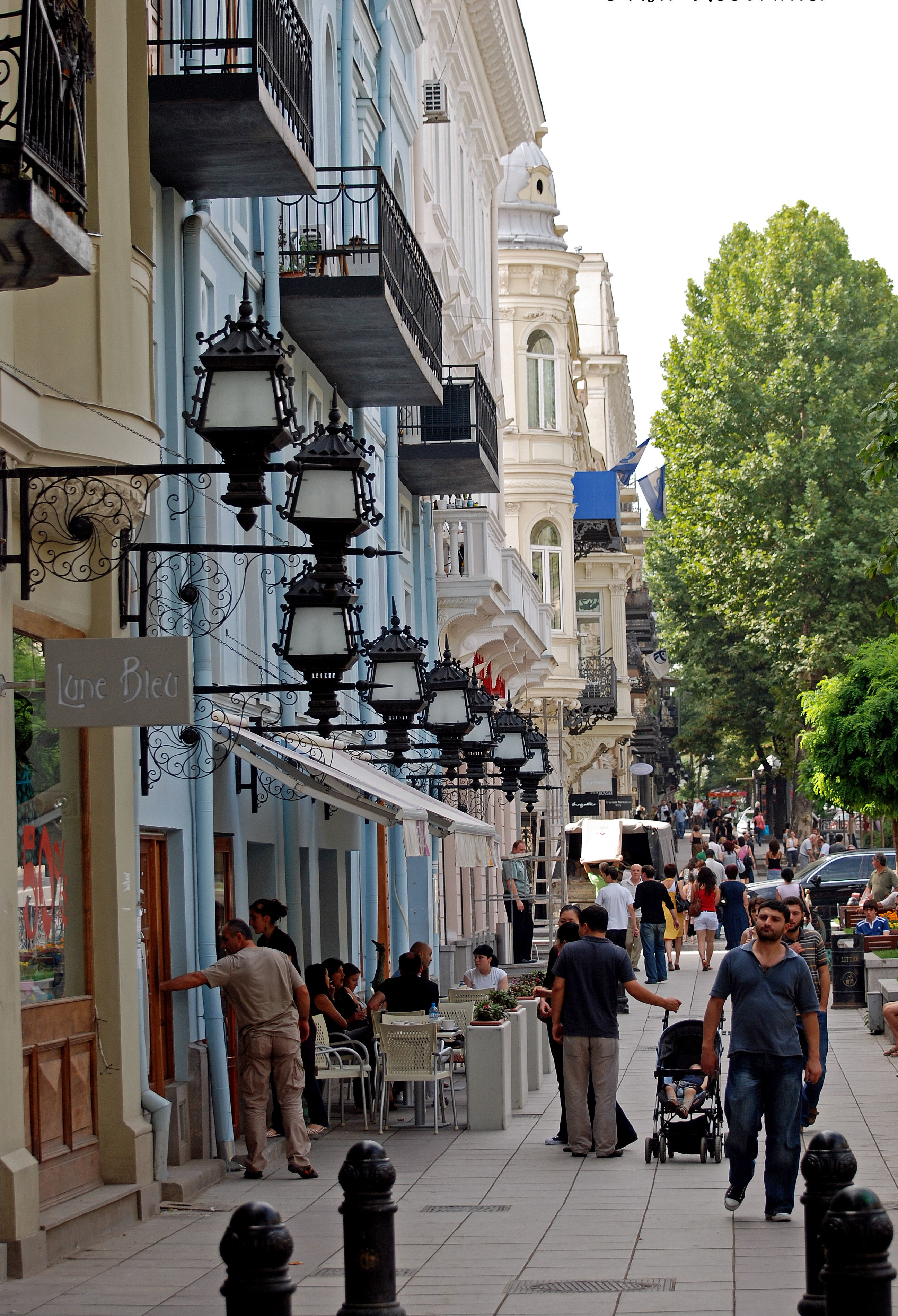 Rustaveli Avenue, Tbilisi, Georgia, August 2009